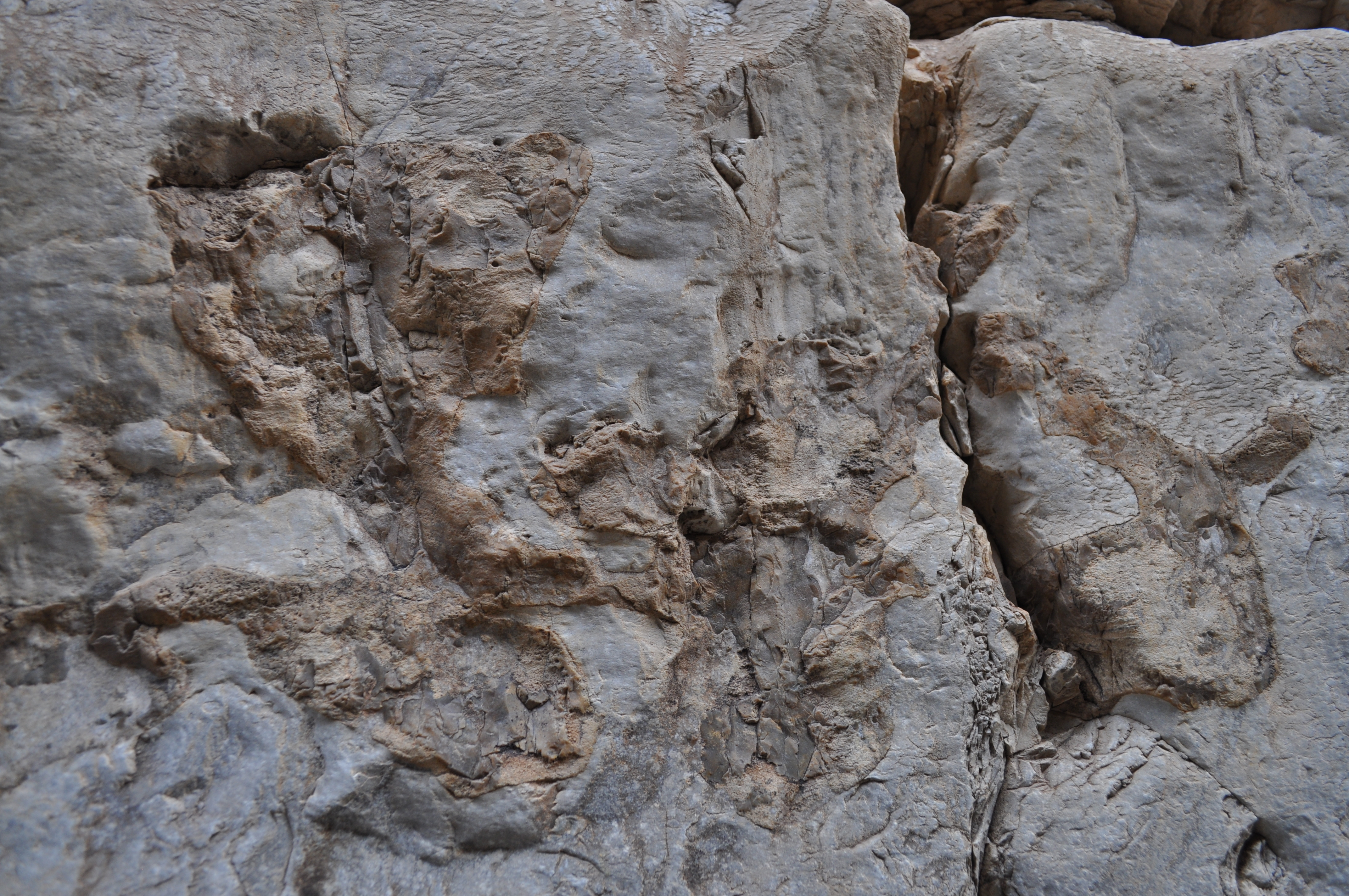 Rocks and fossils in Devils Hall in Pine Spring Canyon in Guadalupe Mountains National Park, Texas.